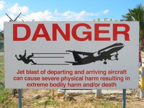 Sign warning users of Maho Beach near Princess Juliana International Airport of jet blast hazard from arriving and departing aircraft.